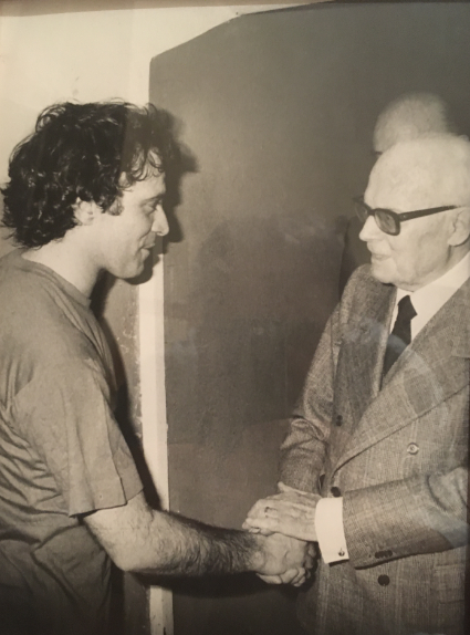 Nel camerino del Teatro Sistina il Presidente Pertini si congratula con Enrico Montesano per il suo spettacolo Bravo!